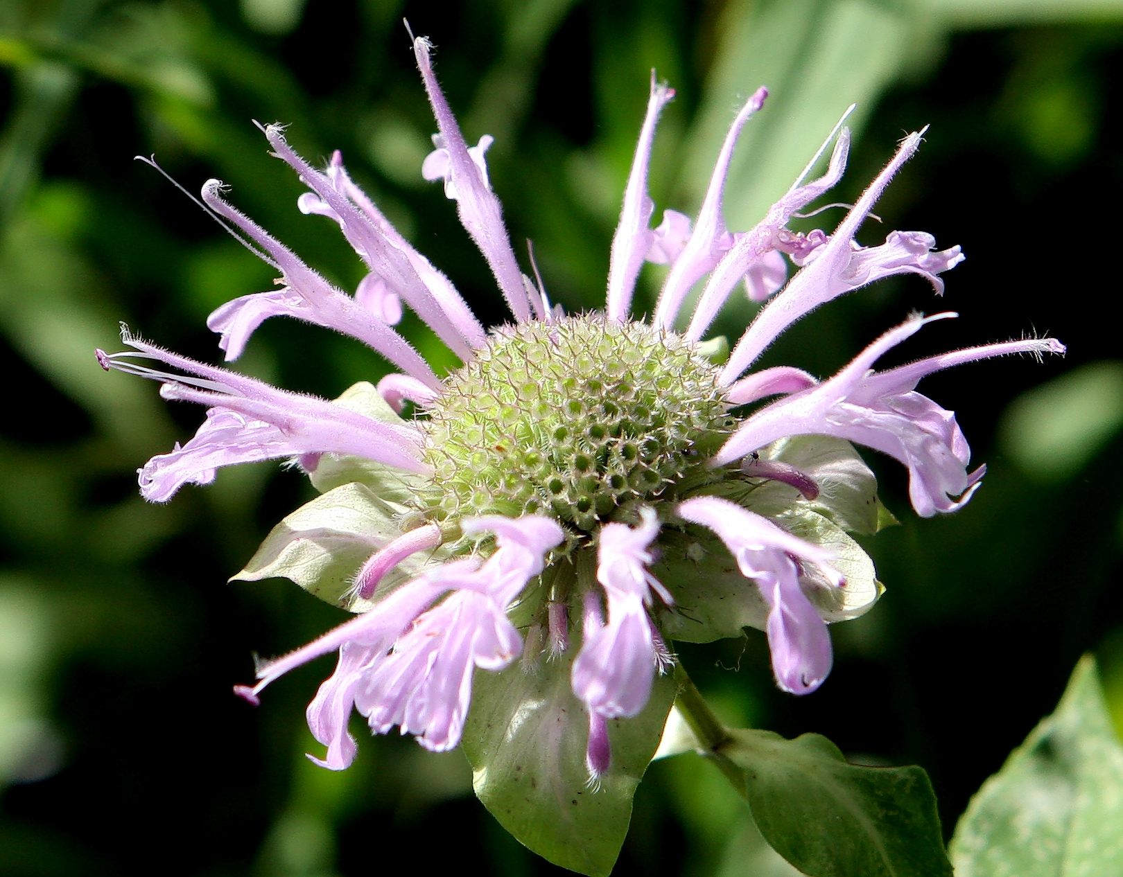 Self made picture of Monarda fistulosa taken in Minnesota in Late July. Plants found along a wood edge with common Milkweed, Dogbane and Mountain mint and Asters.